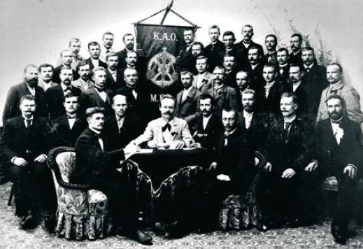 Founding members of the Finnish Metalworkers' Union in Helsinki, June 1899.